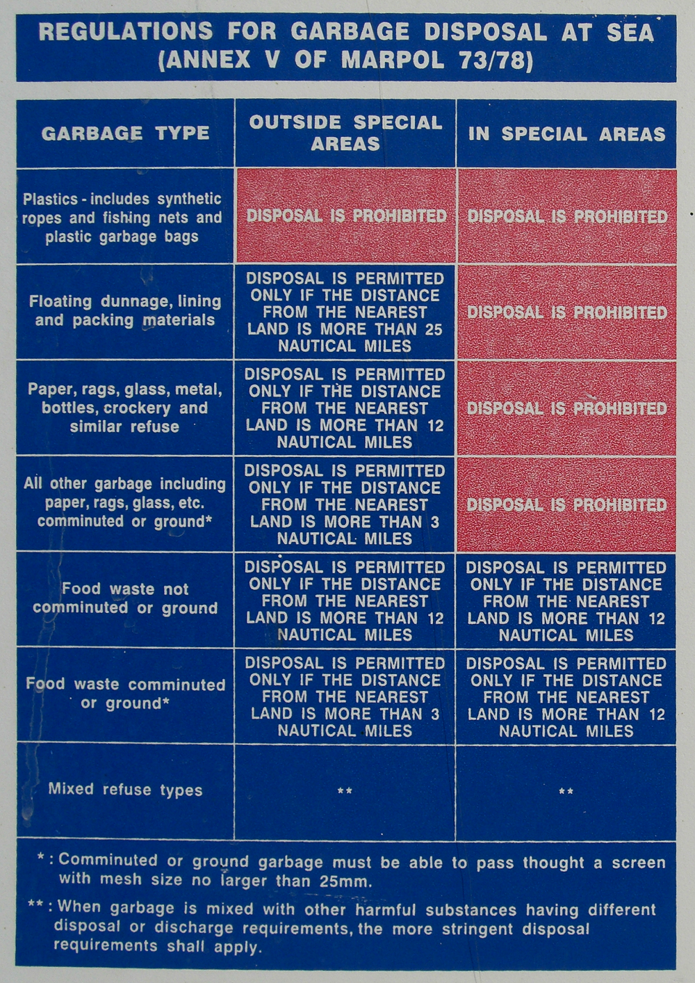 Instructions concerning waste disposal on sea